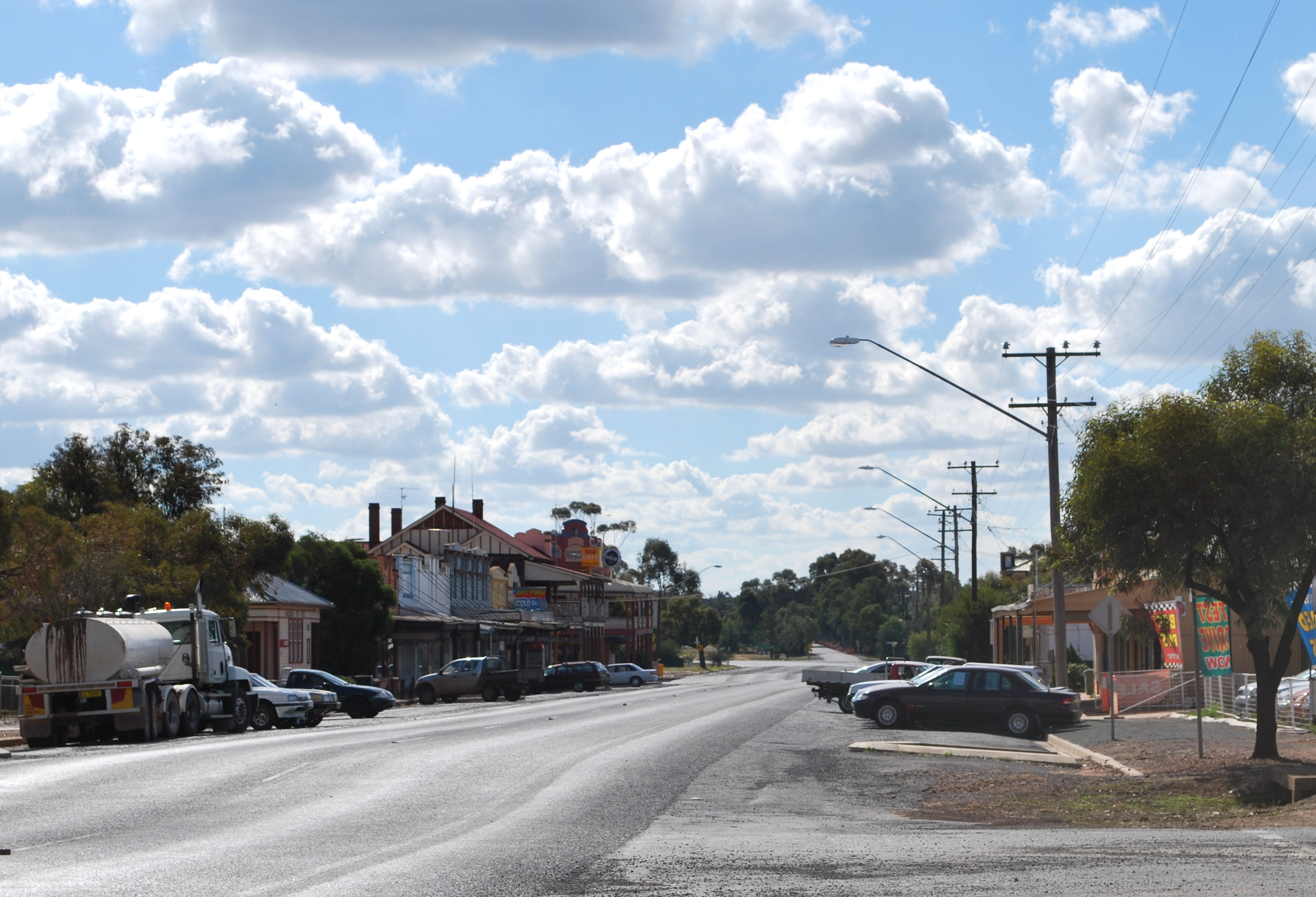 Queen St, the main street of Barmedman, New South Wales